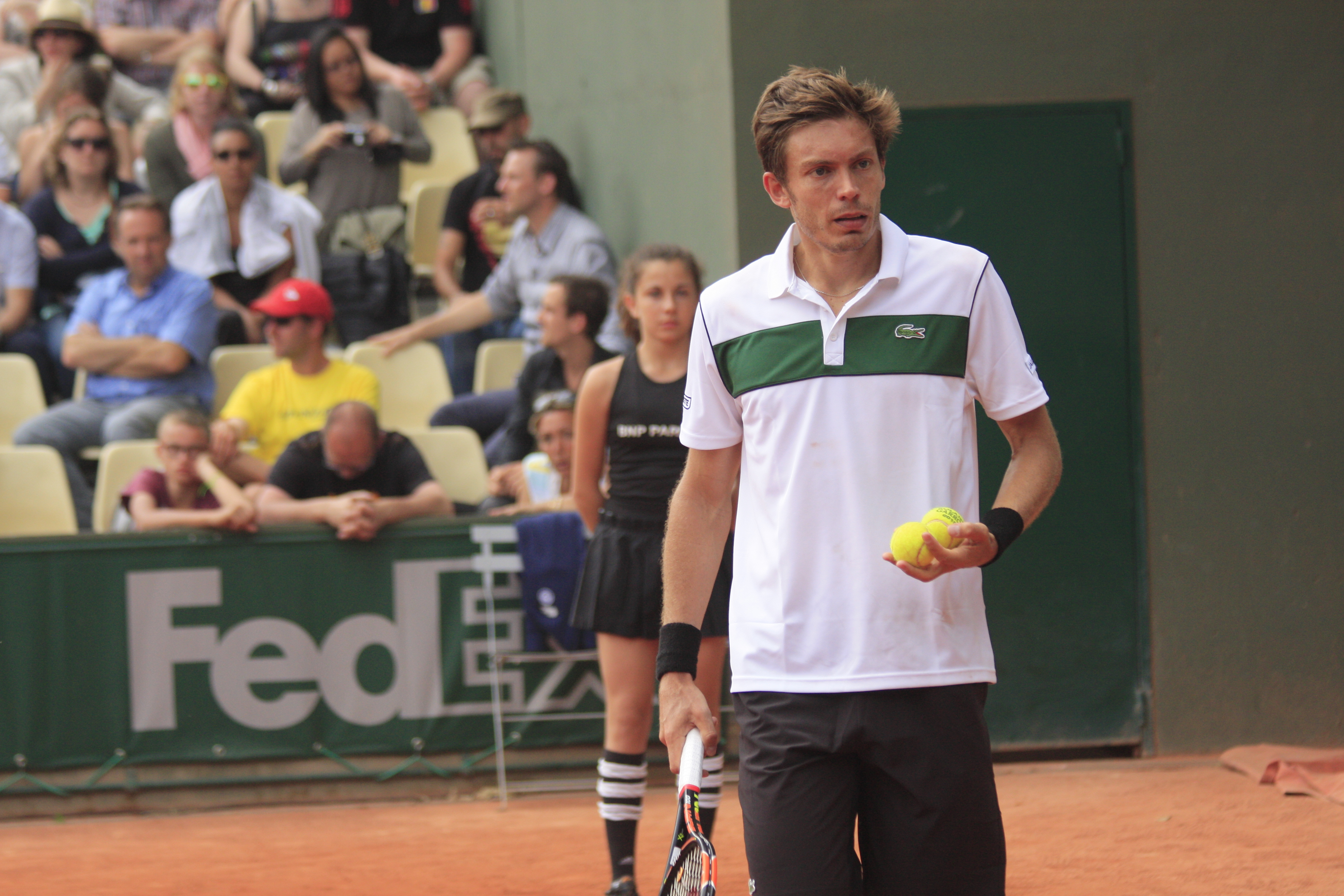 Nicolas Mahut during the first round of the 2015 French Open.